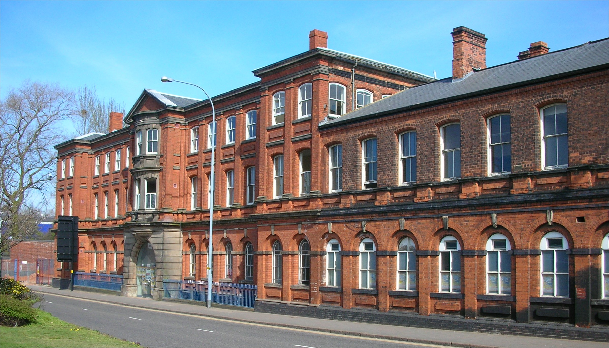 Birmingham Mint on Icknield Street, in the Jewellery Quarter, Birmingham, England. Photographed by me 6 April 2007. Oosoom